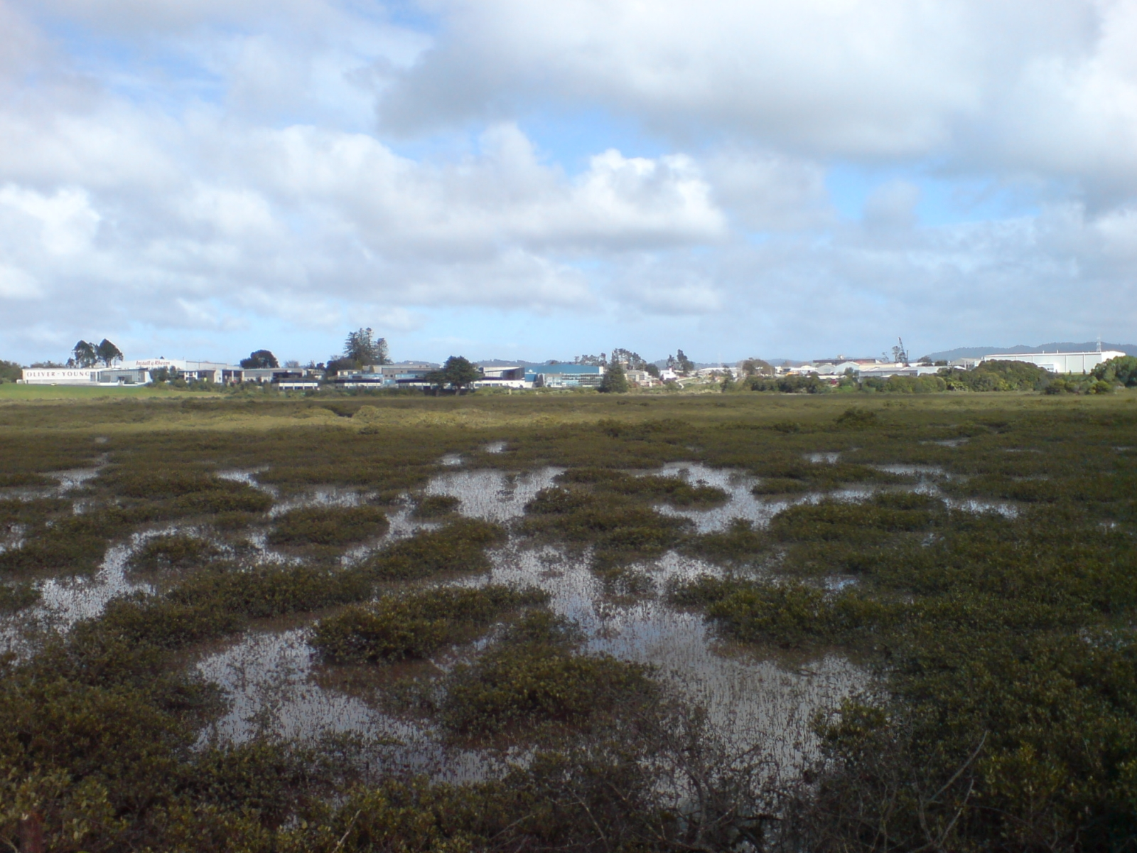 Rosebank Peninsula in Auckland City, New Zealand. Seen from the northeast from the Northwestern Cycleway.